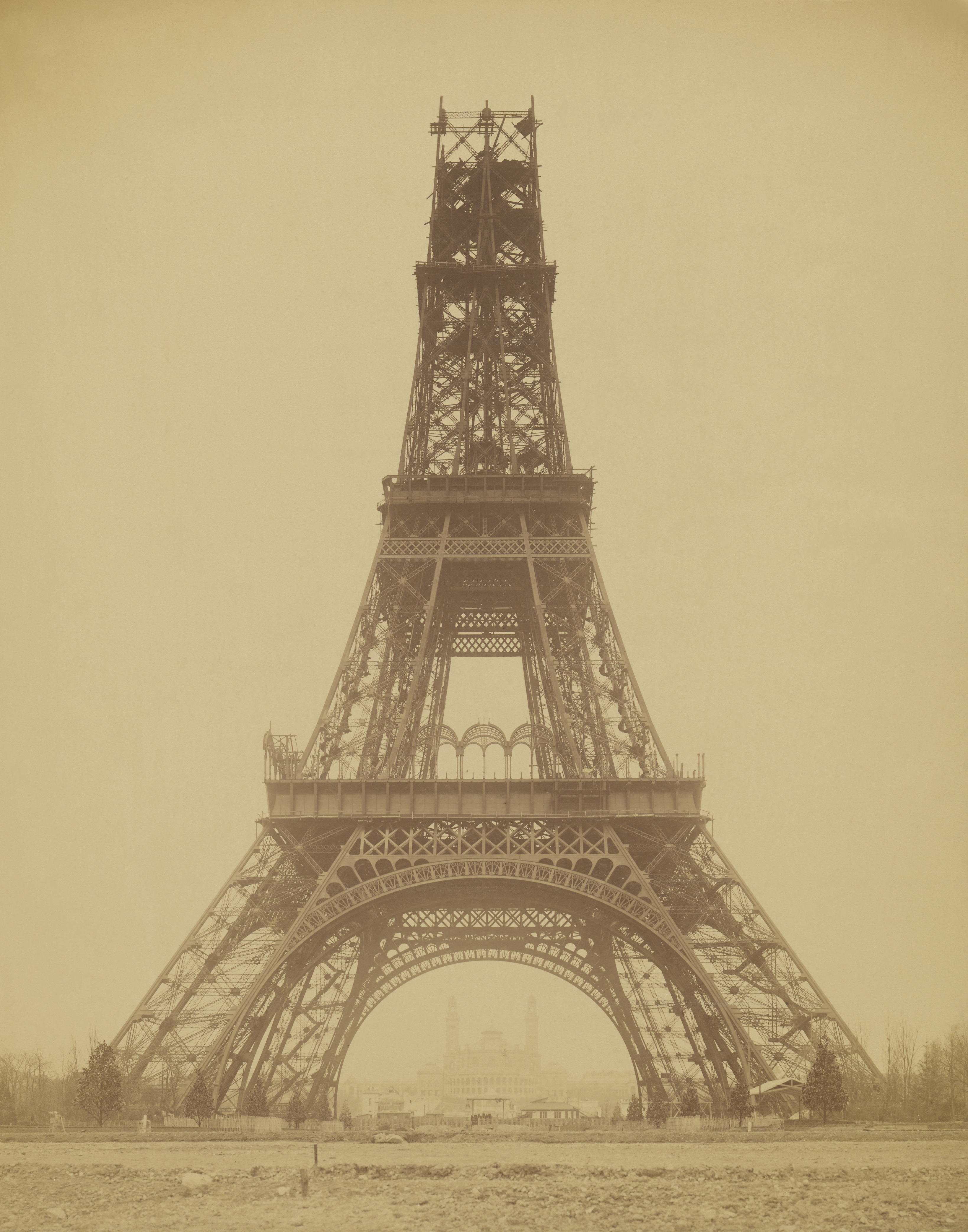 The Centennial Exposition of 1889 was organized by the French government to commemorate the French Revolution. Bridge engineer Gustave Eiffel's 984-foot (300-meter) tower of open-lattice wrought iron was selected in a competition to erect a memorial at the exposition. Twice as high as the dome of St. Peter's in Rome or the Great Pyramid of Giza, nothing like it had ever been built before. This view was made about four months short of the tower's completion. Louis-Émile Durandelle photographed the tower from a low vantage point to emphasize its monumentality. The massive building barely visible in the far distance is dwarfed under the tower's arches. Incidentally, the tower's innovative glass-cage elevators, engineered to ascend on a curve, were designed by the Otis Elevator Company of New York, the same company that designed the Getty Center's diagonally ascending tram.